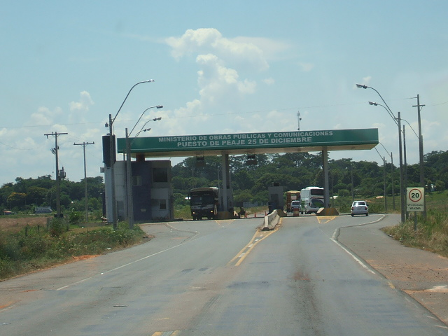 Toll station near the village Veinticinco de Diciembre in the Paraguayan province of San Pedro.